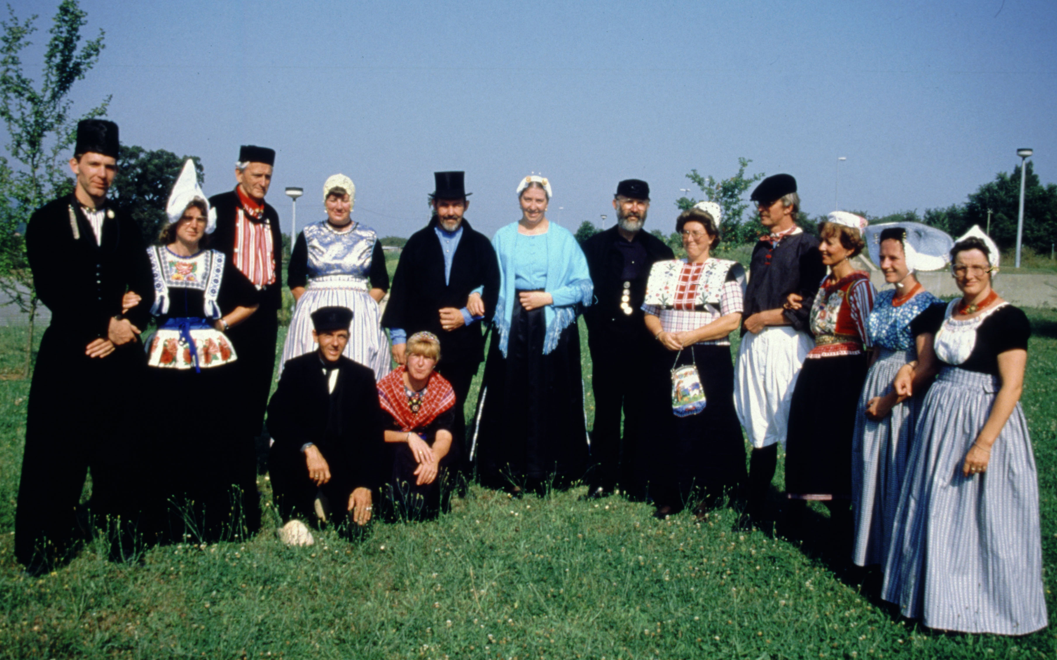 Dutch traditional costumes worn by folklore dancing group 'Maroesjka' from Heeze shot on a festival in Portugal in 1989 costumes from: M/F Volendam, M/F Urk, M/F Scheveningen, M/F Spakenburg, M/F Marken, F/F Arnemuiden (kneeling M/F Staphorst